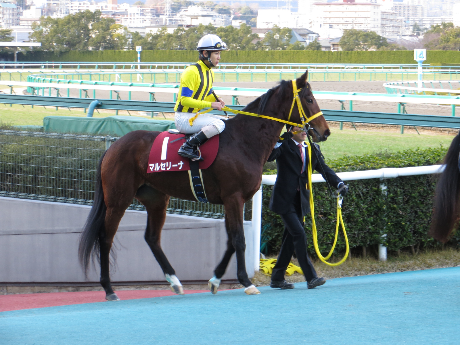 Marcellina (Japanese race horse).